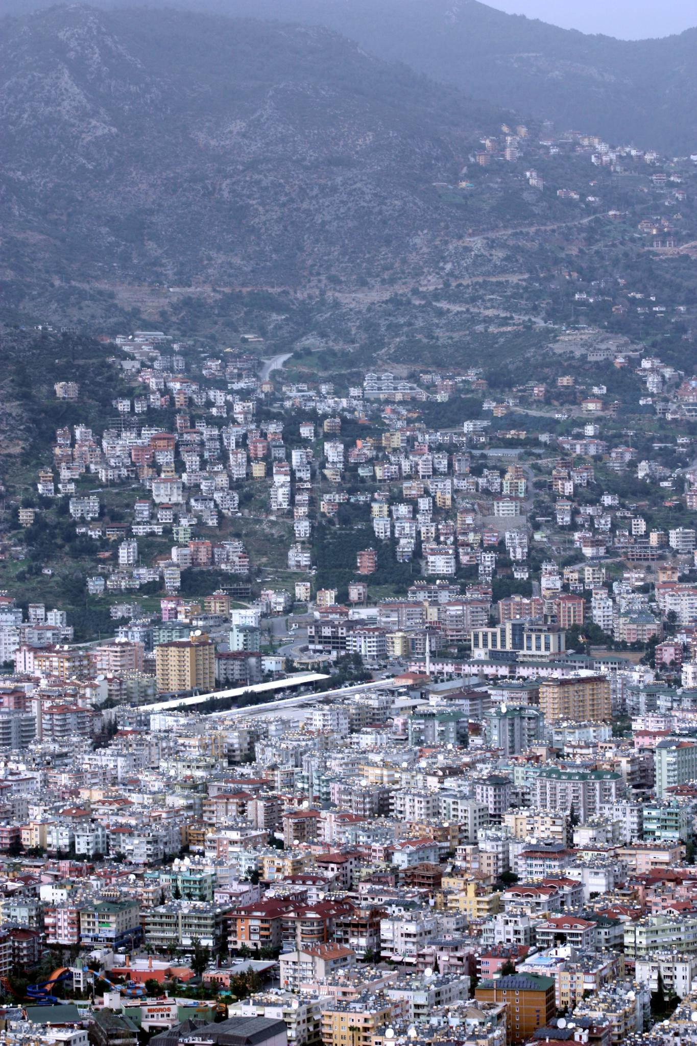 View from Castle